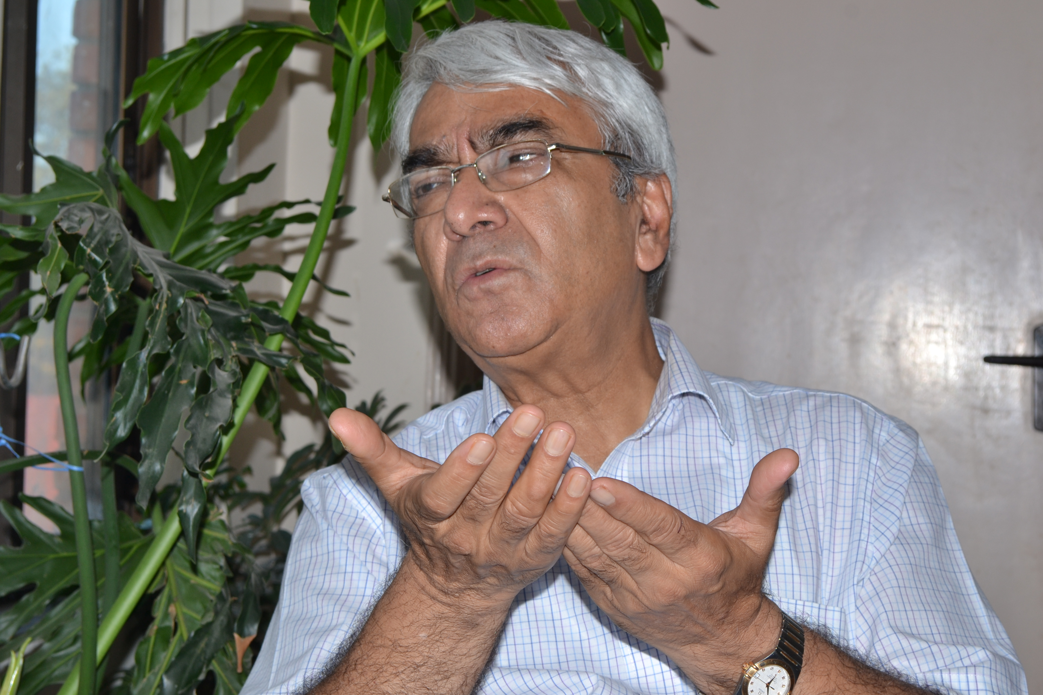 Da. Bhola Rijal is multitalent person